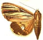 PLATE CCXXVI.